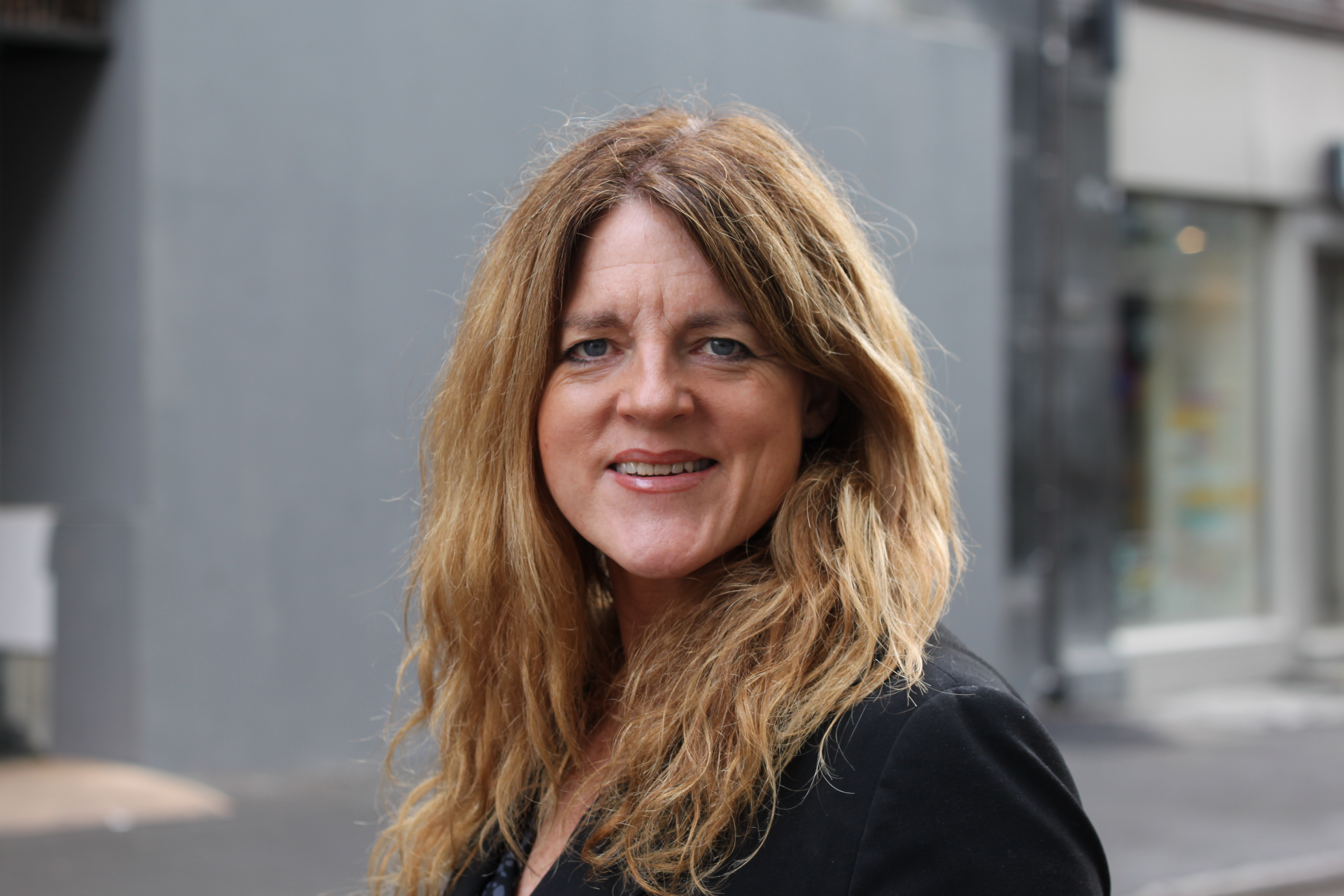 Hilde Frafjord Johnson (2016)